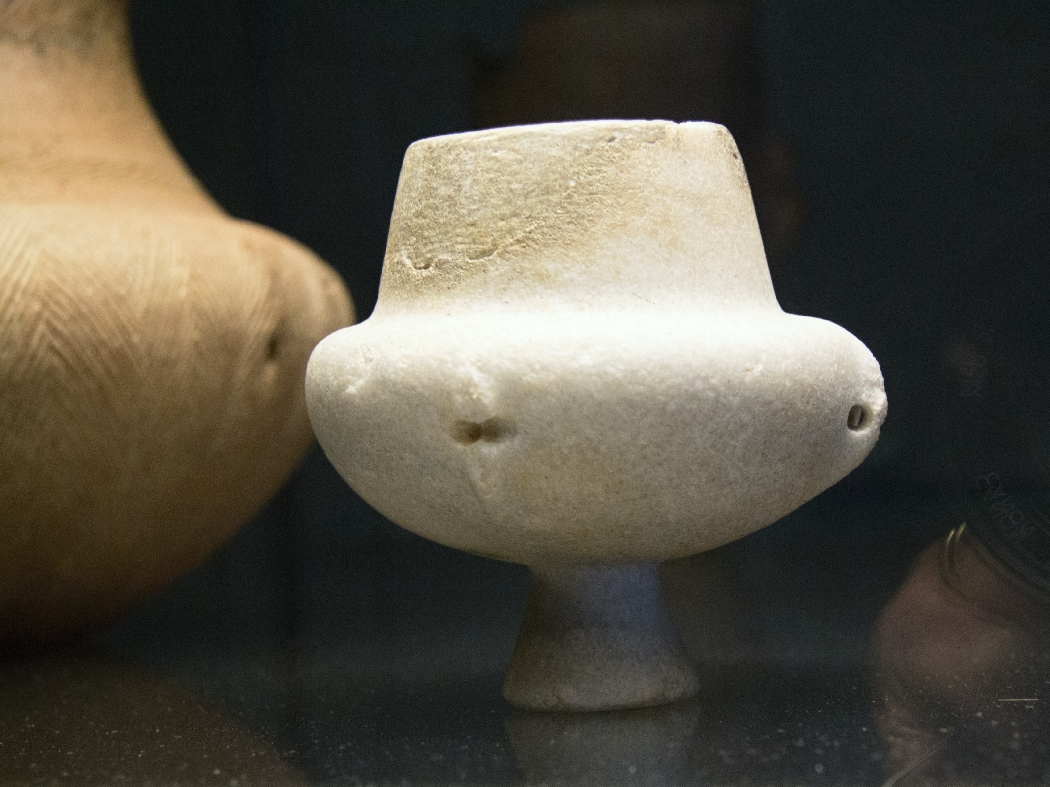 Small marble cycladic vessel of the type kandela. Found on Antiparos. Grotta-Pelos culture, Early Bronze Age, EC I, 3200 – 2800 BC, British Museum GR 1890.1-10.5. (Given by J.T. Bent.)